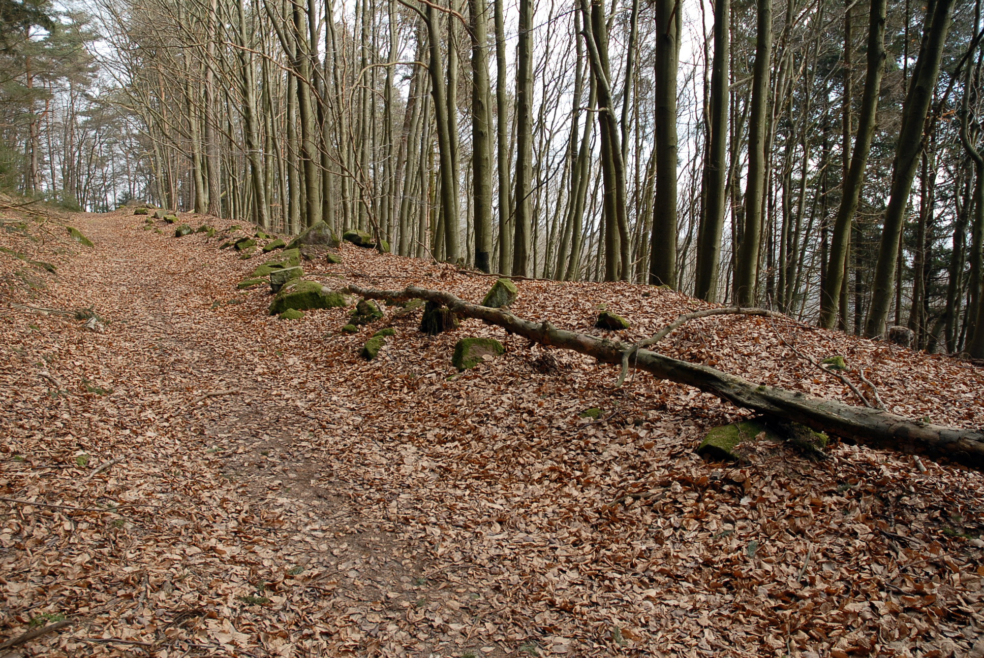 Remains of the circular embankment on the Orensberg